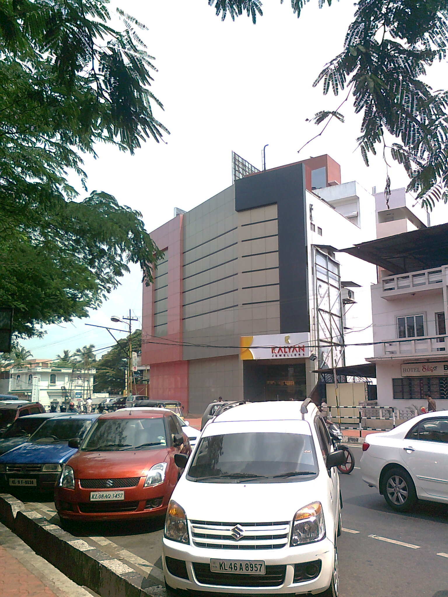 kalyan jewellers, round north, thrissur.